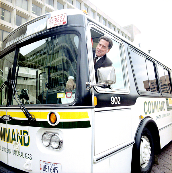 Since 1977, the people of the U.S. Department of Energy have been delivering the science, innovation and expertise required to advance America's energy, economic and national security. In this photo taken in June 1988, former Secretary of Energy John Herrington takes the wheel of a clean natural gas vehicle in front of the Energy Department in Washington, DC. Today, natural gas powers over 112,000 vehicles in the United States and roughly 14.8 million vehicles worldwide. Natural gas vehicles, which can run on compressed natural gas, are a good option for high-mileage, centrally-fueled fleets that operate within a limited area. | Photo courtesy of the Department of Energy. Photo of the Week: September 28, 2012